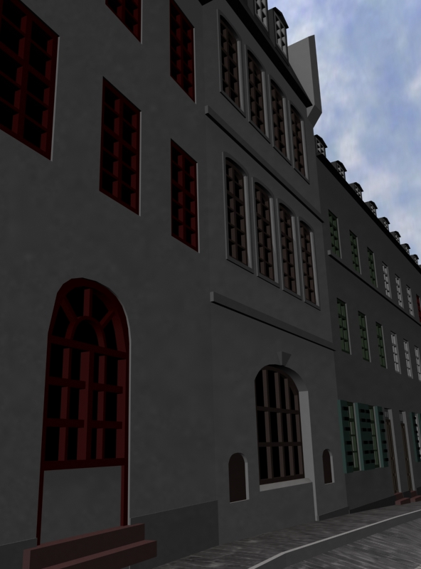 Frankfurt on the Main: Rear building of house Lichtenstein at the Kerbengasse (Kerf Lane)